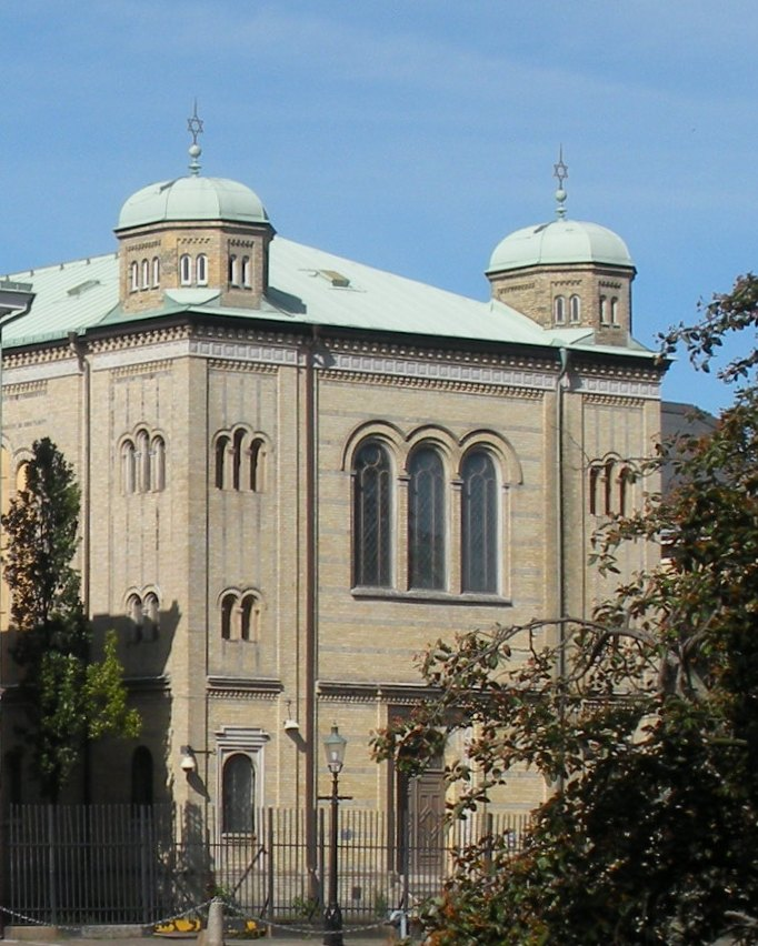 Synagogue in Gothenburg Synagoga w Göteborgu Synagoga i Göteborg